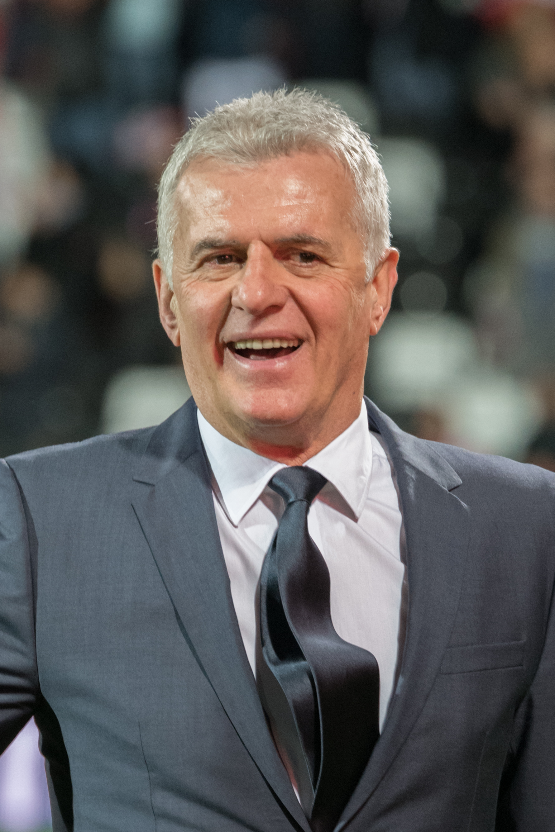 FIFA Women's Football World Cup Qualification 2019, Austria vs. Serbia 2018-04-05. Picture shows Miodrag Martać